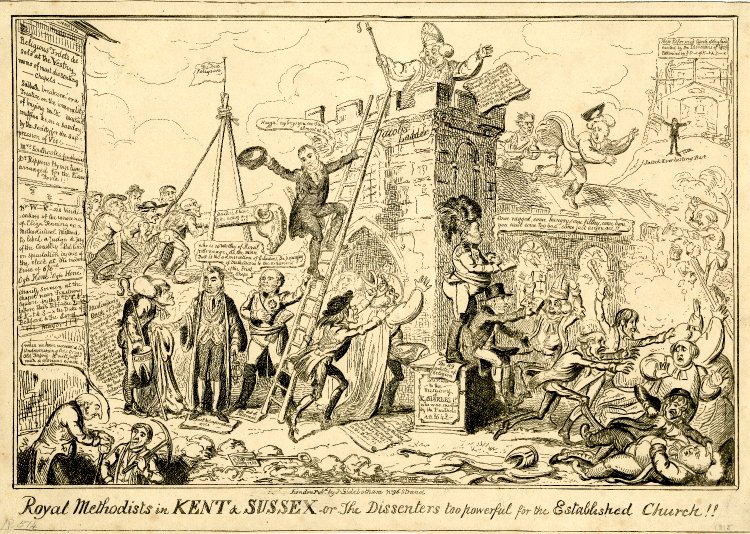 Royal methodists in Kent & Sussex-or the dissenters too powerful for the established church!!, satirical print. It comments on the opening of the Hanover Chapel in Peckham, London by William Bengo' Collyer (on ladder waving hat), supported by the Royal Dukes of Kent and Sussex.